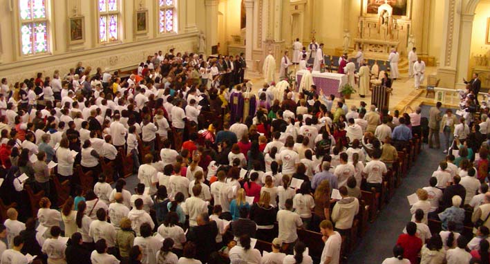 St. Aloysius Roman Catholic Church in Washington, DC, holds a Mass for Immigrants before the March on America protest.